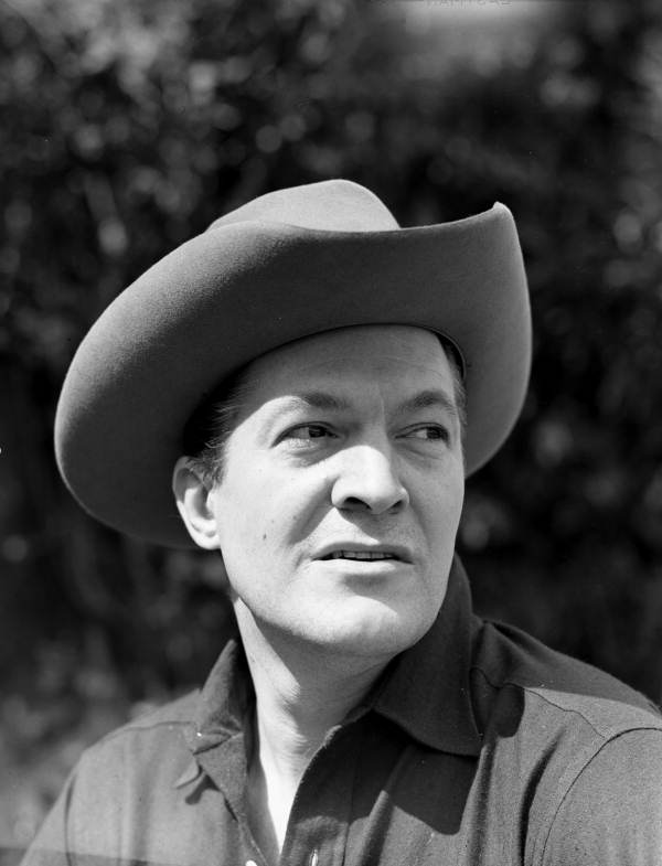 Local call number: JJS0036 Title: Ringling Brothers Circus art director Peter Arno: Sarasota, Florida Date: 1942 Accompanying note: "Famous New Yorker cartoonist who did many illustrations for the Ringling programs." Physical descrip: 1 photonegative - b&w - 5 x 4 in. Series Title: Repository: 500 S. Bronough St., Tallahassee, FL 32399-0250 USA. Contact: 850.245.6700. Persistent URL